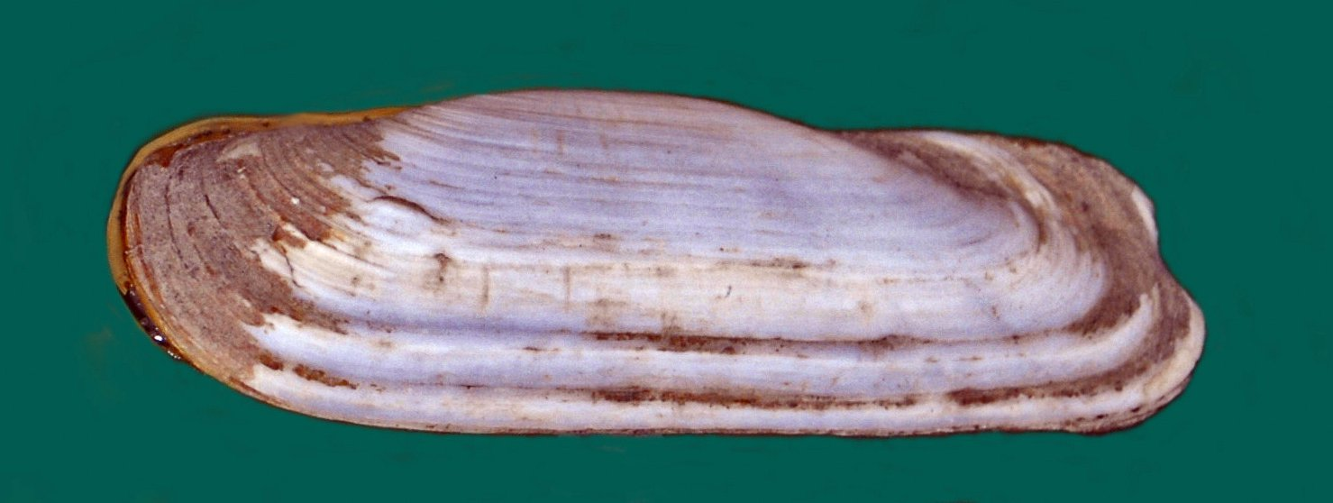 Cropped image of taxon in file name